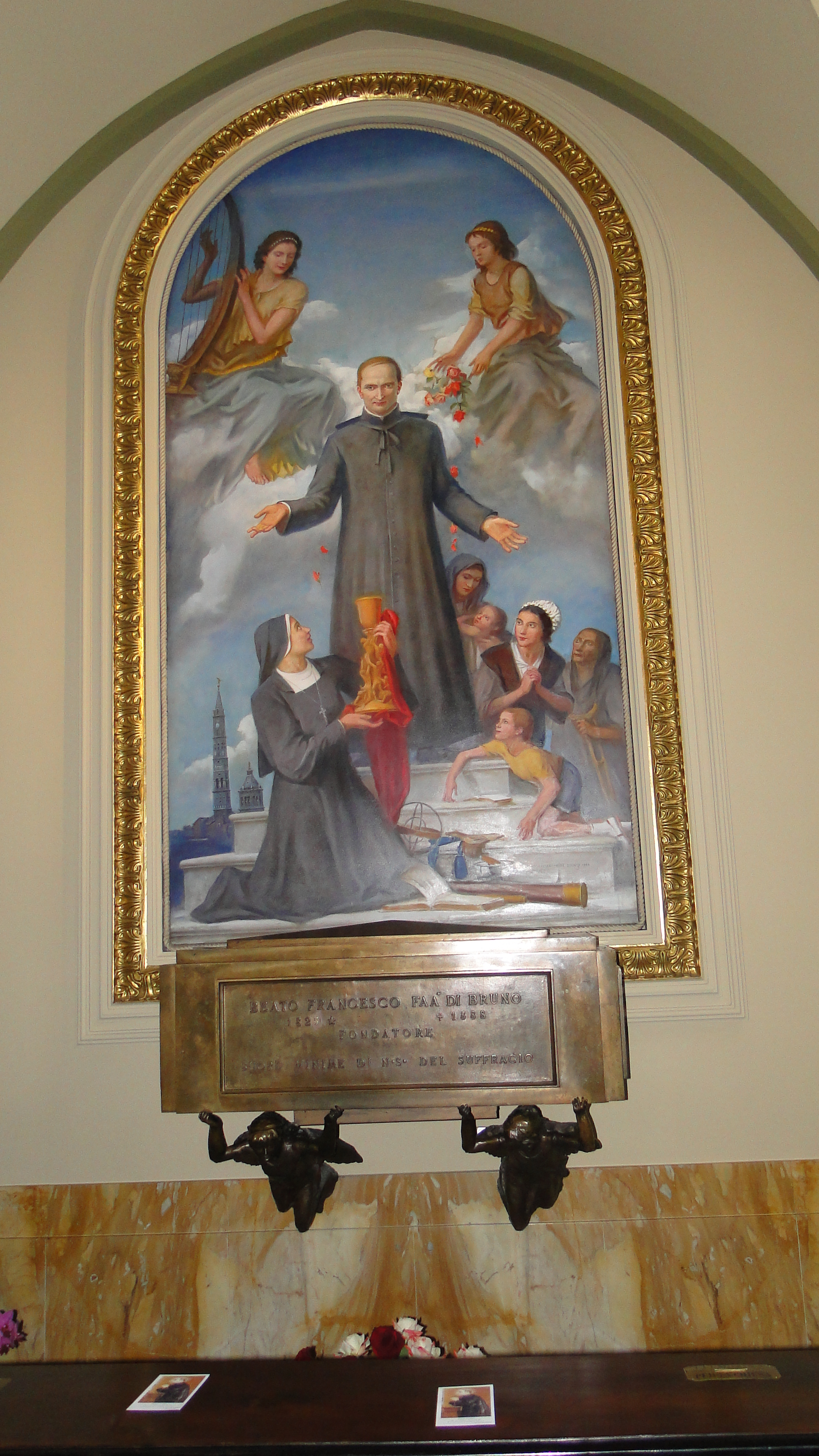 Church of S. Zita in Turin (Italy) - Chapel with urn of bones of blessed FRancesco Faà di Bruno